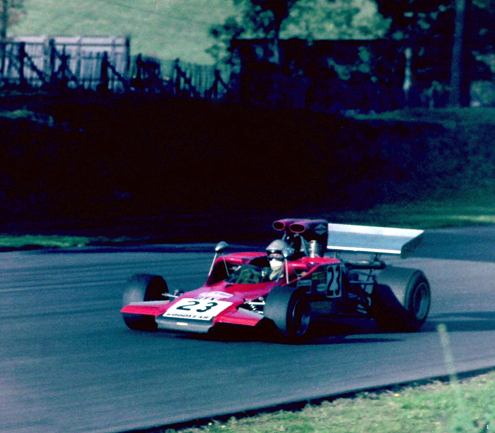 Australian racing driver Frank Gardner, at the wheel of a Formula 5000 Lola T300 car, approaches Druids Hill Bend at Brands Hatch circuit, UK, during the World Championship Victory Race, 24 October 1971.